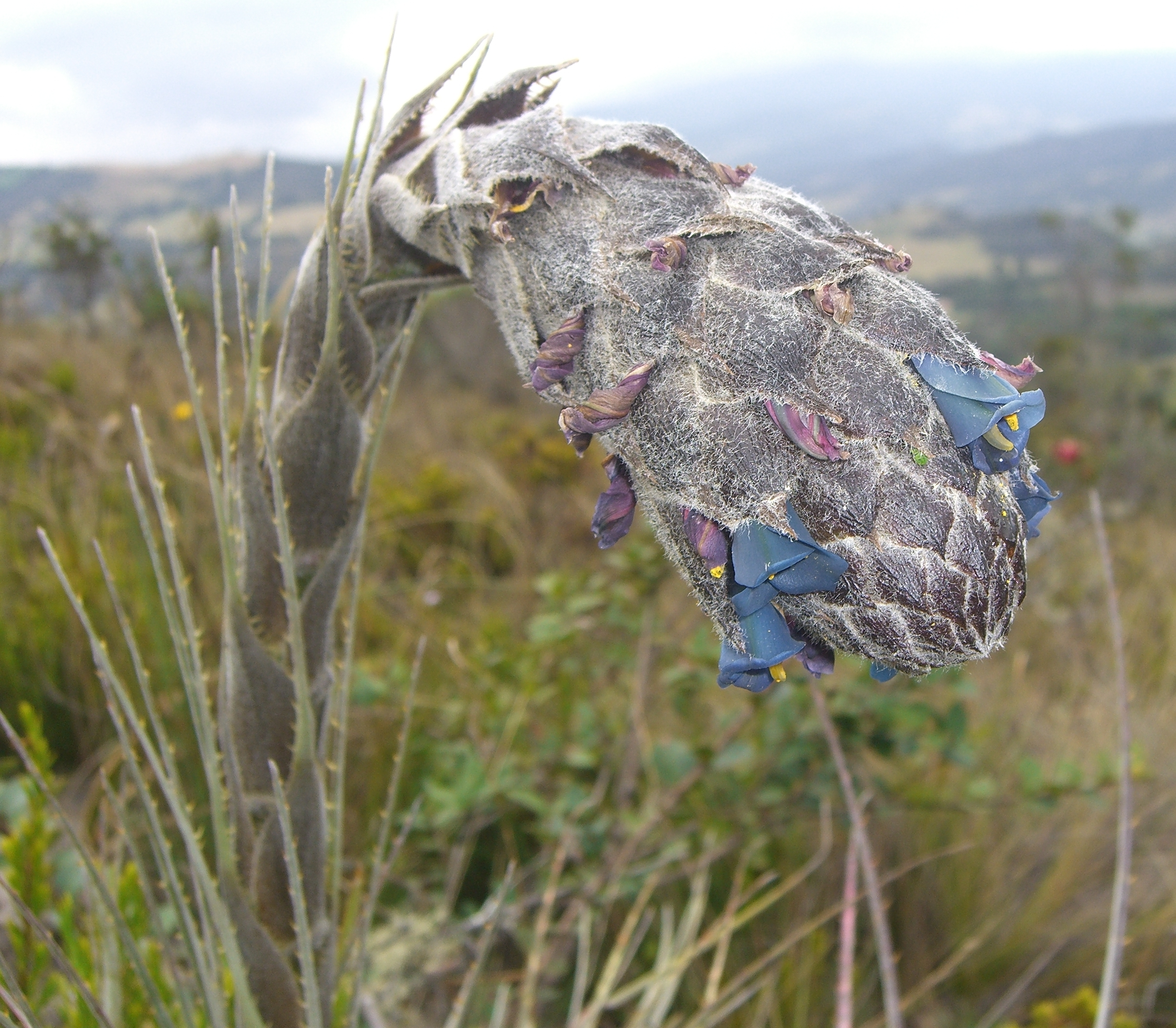 Please report references to .